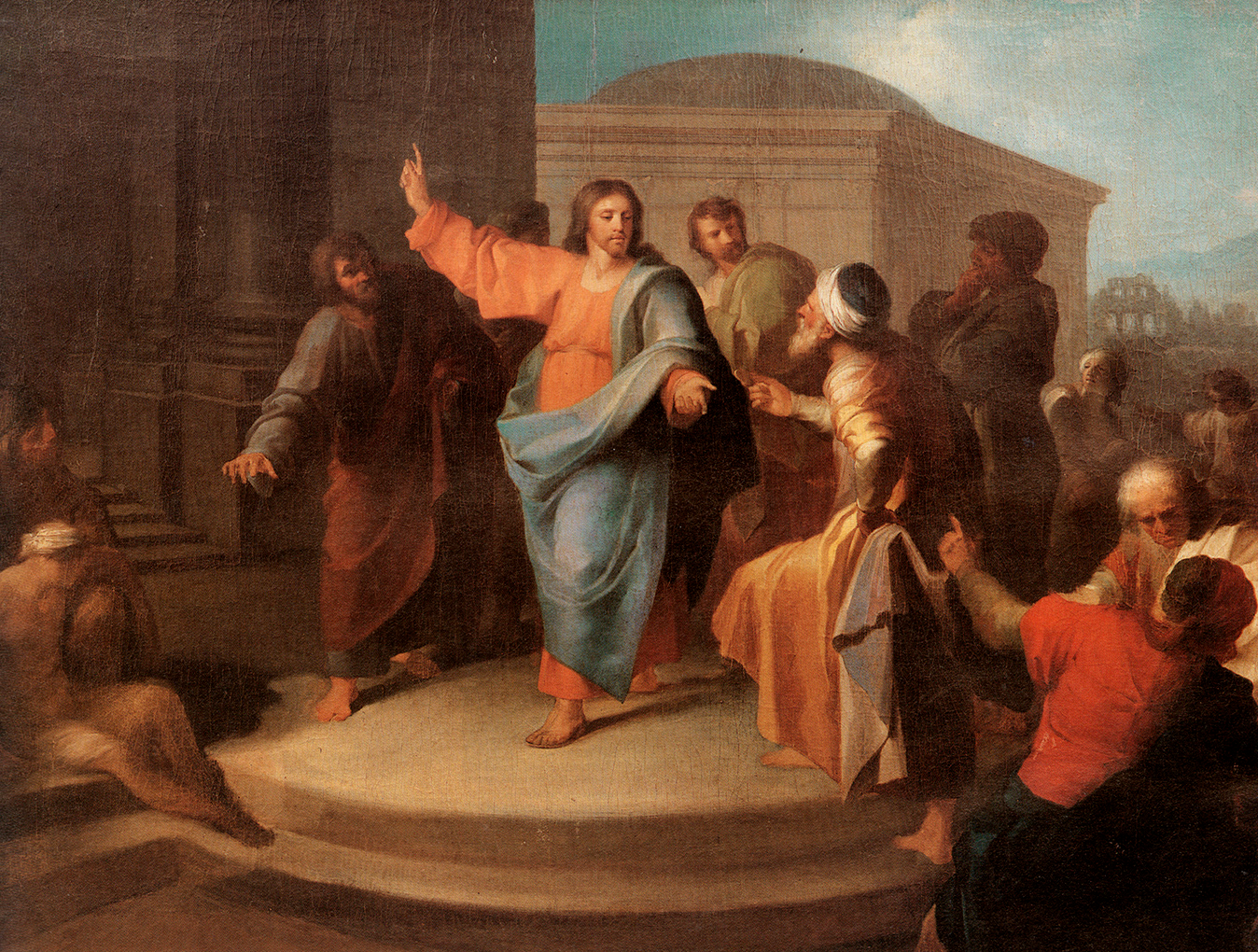 Caesar's Coin" (1790), by Domingos Sequeira. Private colection.